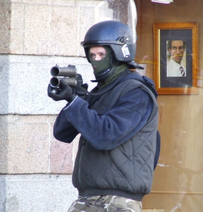 A flash-ball user